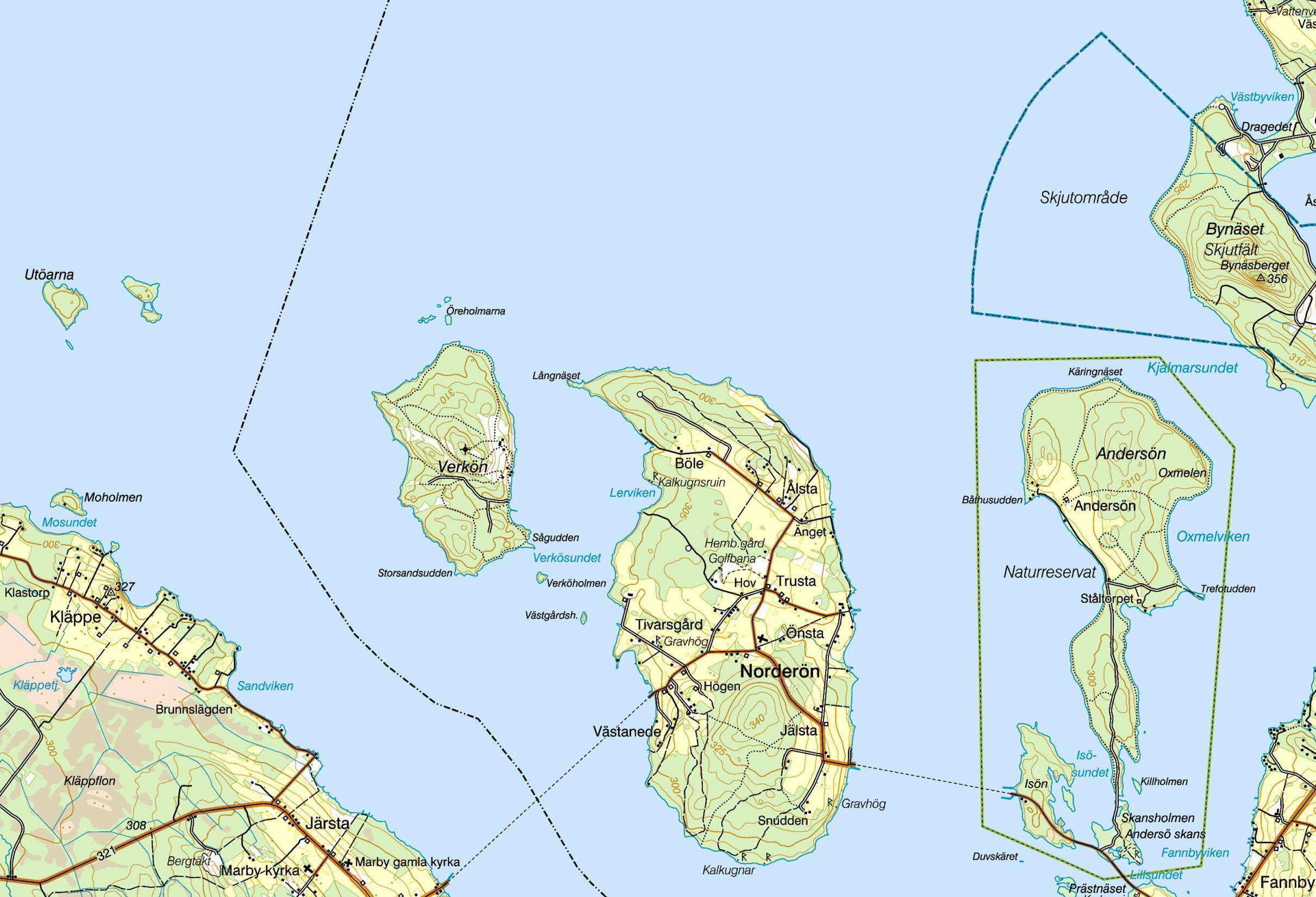 Verkön, Norderön och Andersön i Storsjön. (från "693 Östersund")